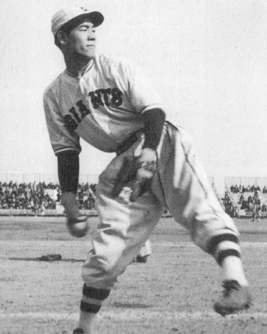 A baseball player from Japan, Eiji Sawamura